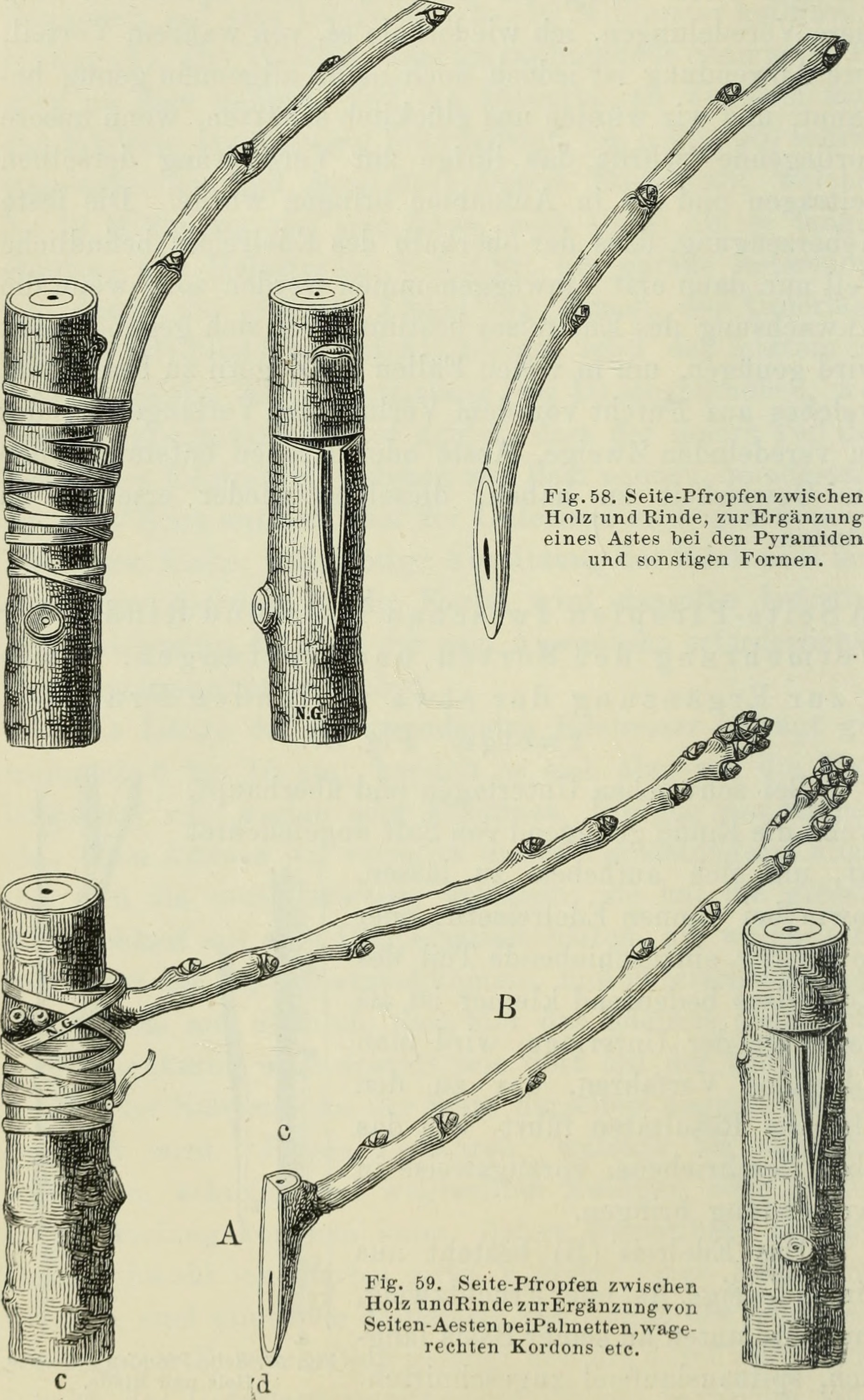 [The cultivation and their application for the different trees and shrubs: theoretical and practical teachings about the pruning, grafting, budding, etc., as well as about the growing and admiration of natural woody plants, with an appendix, hints on the rational fruit culture, a list of the fruit varieties most suitable for the various tree forms, and a monthly guide for the gardener, arborist and plant lover] Year: 1891 (1890s) Authors: Gaucher, Nicolas, 1846-1911 Subjects: Grafting; Pruning; Fruit-culture Publisher: Stuttgart : J. Hoffmann Text Appearing Before Image: 98 Veredelungen mittels abgelöster Zweige etc. Auf der Unterlage (A) wird an dem Punkt, wo das Edelreis angebracht werden soll (C), ein T-Schnitt mittels Text Appearing After Image (captions): Fig. 58. Seite-Pfropfen zwischen Holz and Rinde, zur Ergänzung eines Astes bei den Pyramiden und sonstigen Formen. Fig. 59. Seite-Pfropfen zwischen Holz and Rinde zur Ergänzung von Seiten-Asten bei Palmetten, wagerechten Kordons etc.